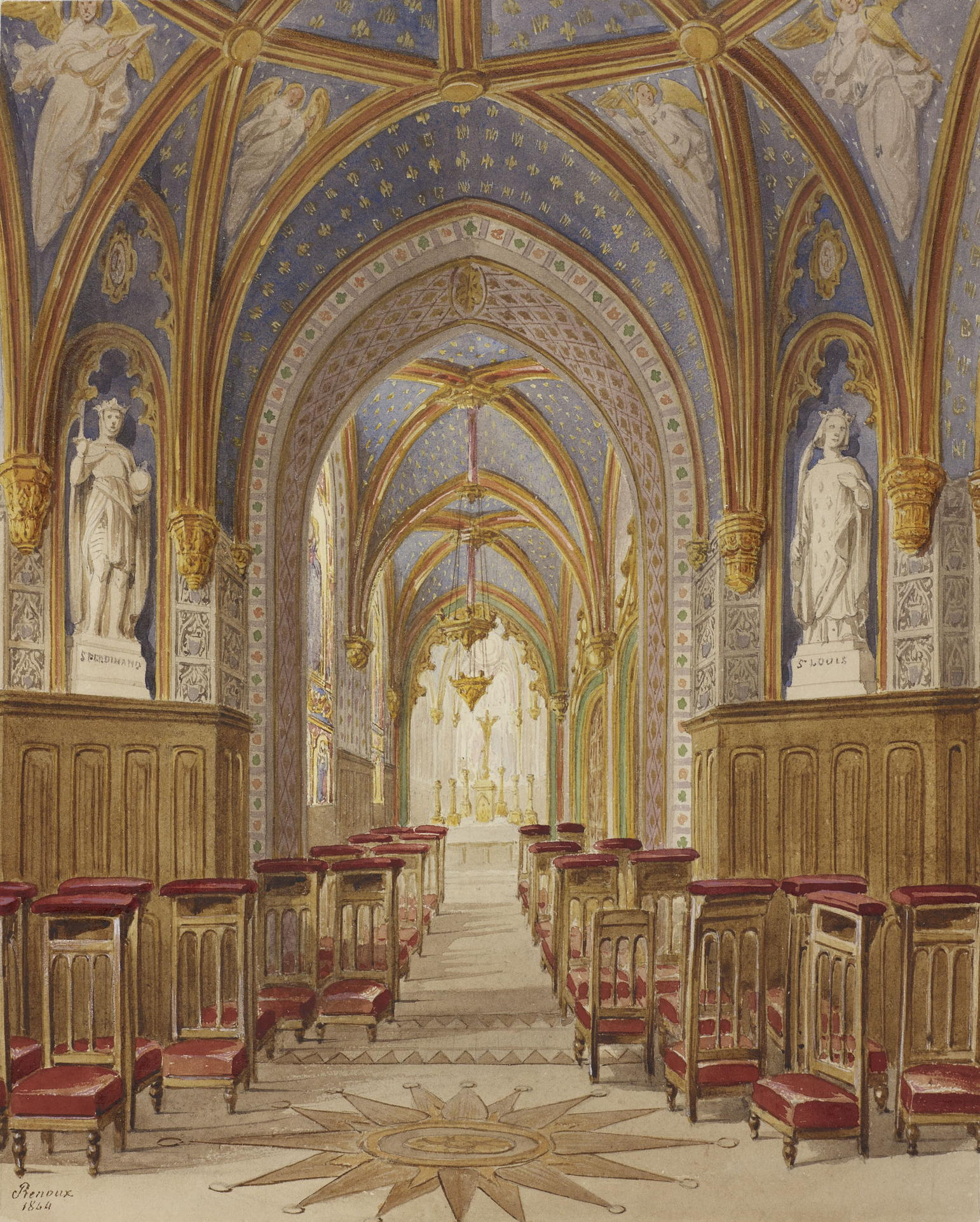 Charles-Caïus Renoux, Royal visit to Louis-Philippe: interior of the Chapel at the Château d'Eu (1844)